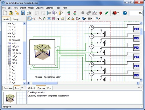 The image shows 20-sim with a robot model loaded. The robot is generated with the 3D Mechanics Toolbox and connected with standard actuator and sensor models from the mechanics library. The robot is controlled by PID controllers which are tuned in the frequency domain.